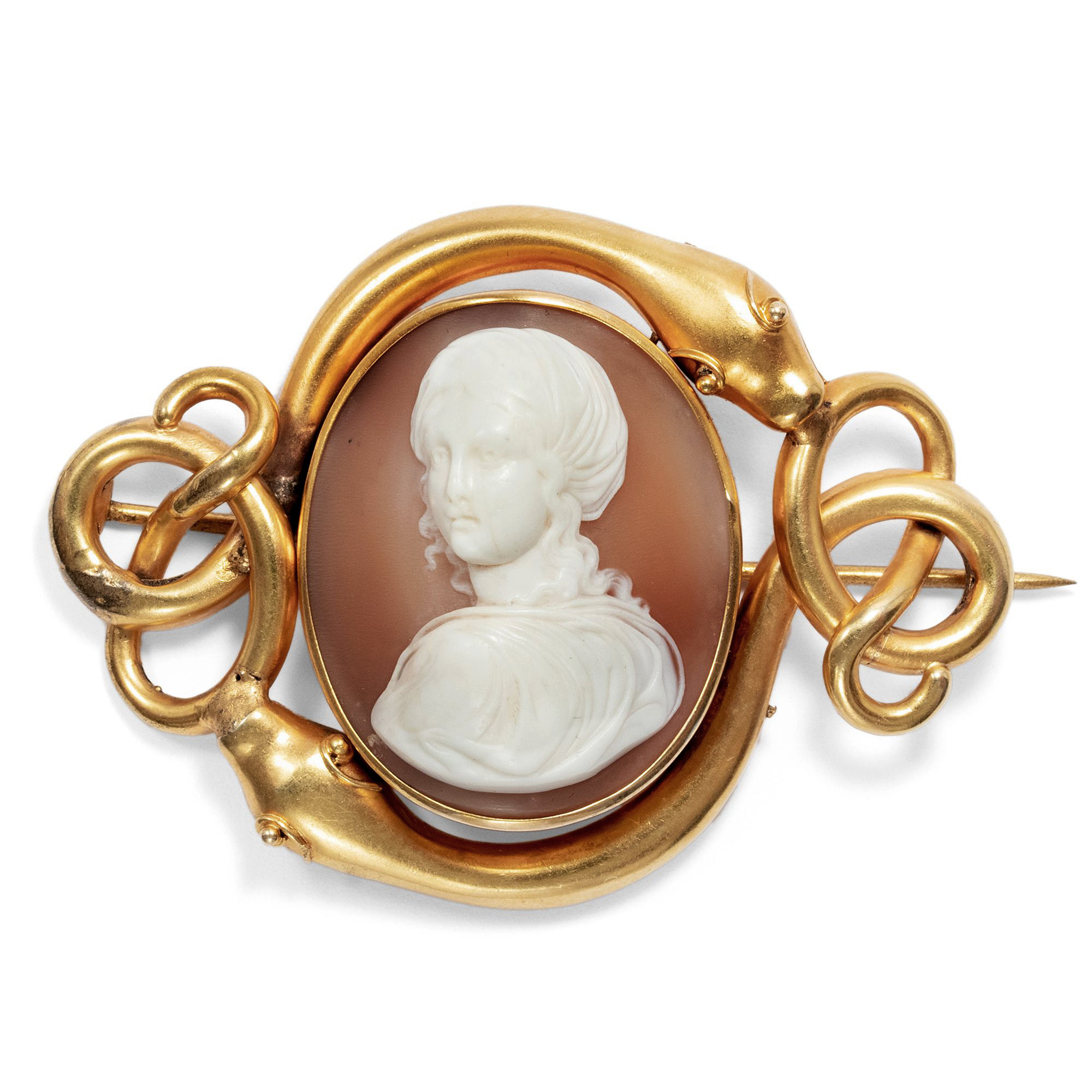 Antique brooch with a cameo depicting Beatrice Cenci set in Gold, made around 1850. Property of Hofer Antikschmuck, Berlin (Germany).